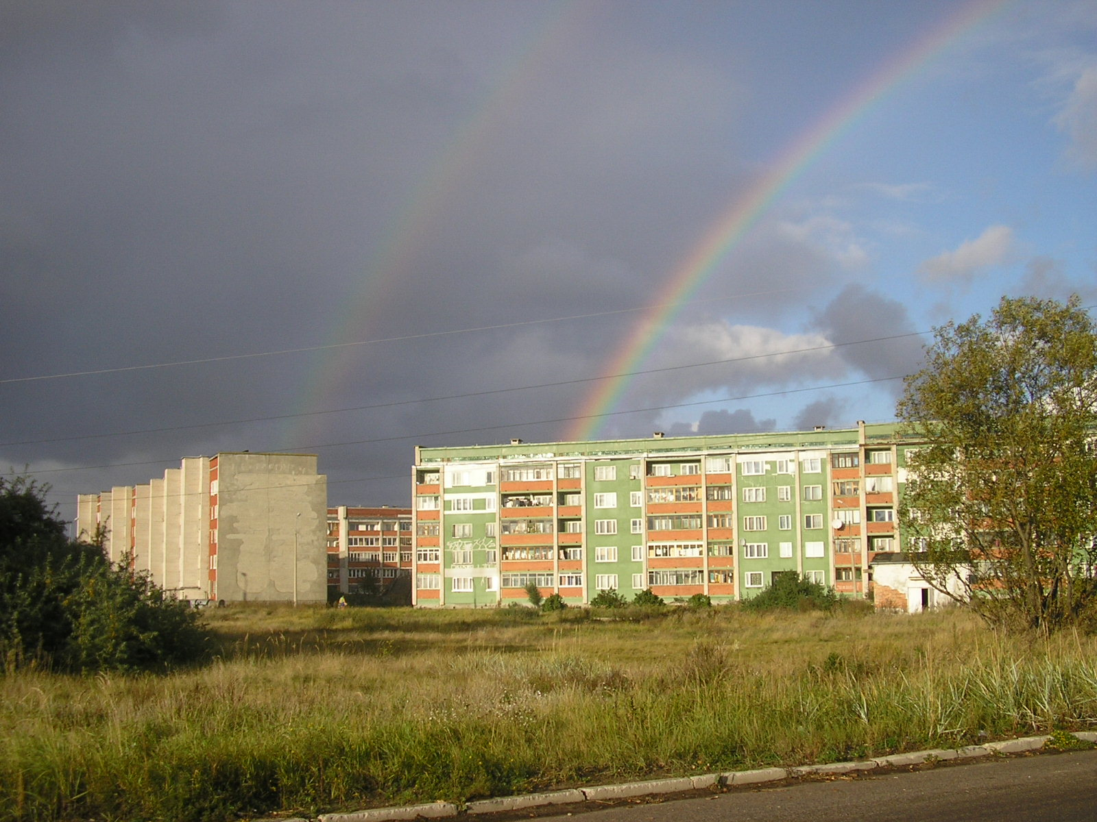 Rainbow over apartments. Bolderāja, Latvia.